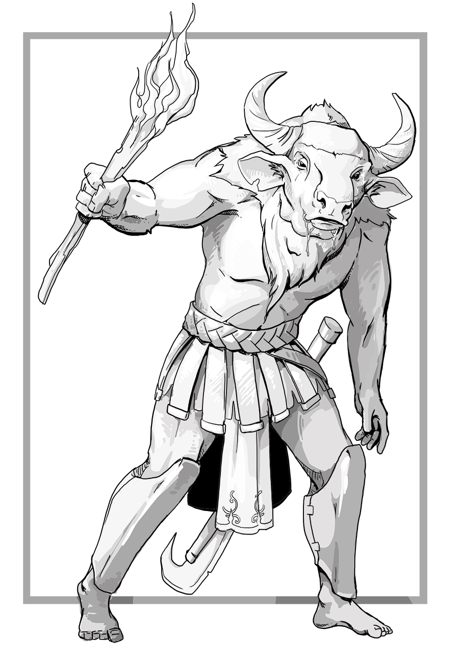 minotaurs are a race of monstrous humanoids, resembling bull-human hybrids.